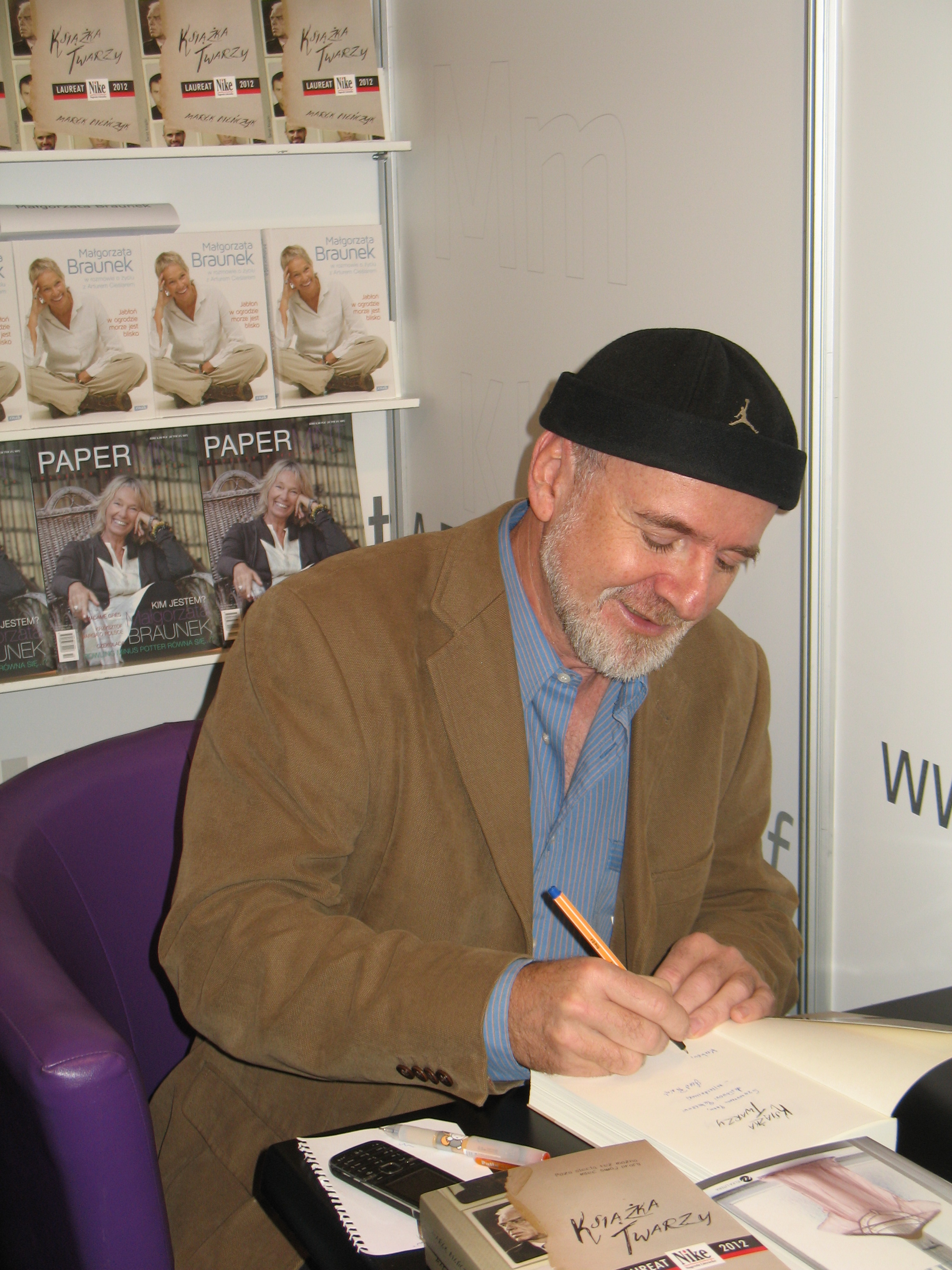 Polish writer Marek Bieńczyk signing his books at the Book Fair in Cracow